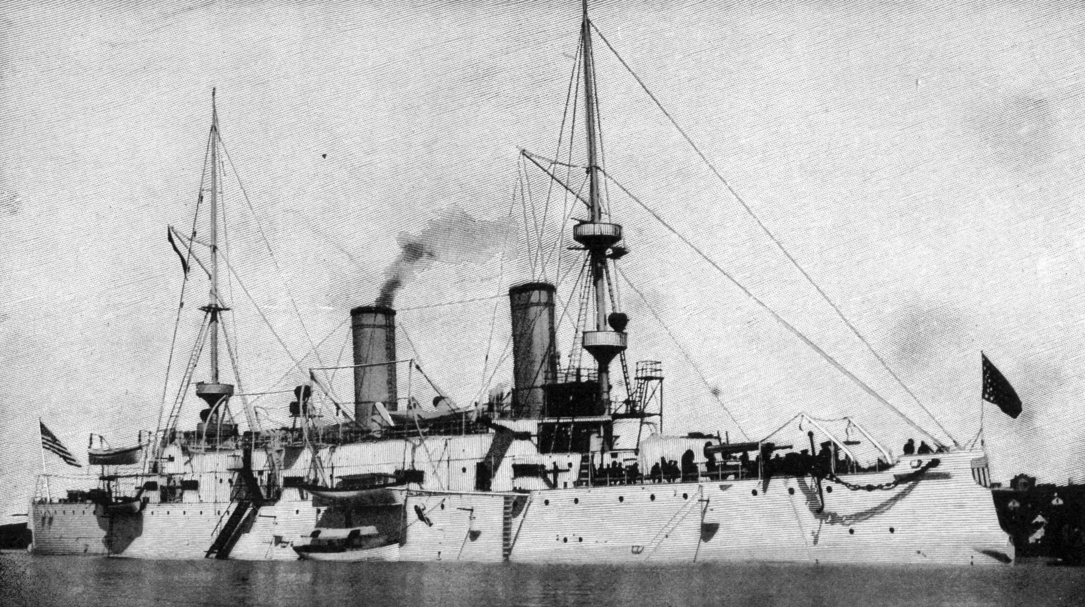 The protected cruiser "Olympia", Admiral Deweys' flagship. (date unknown of photo published in 1899)